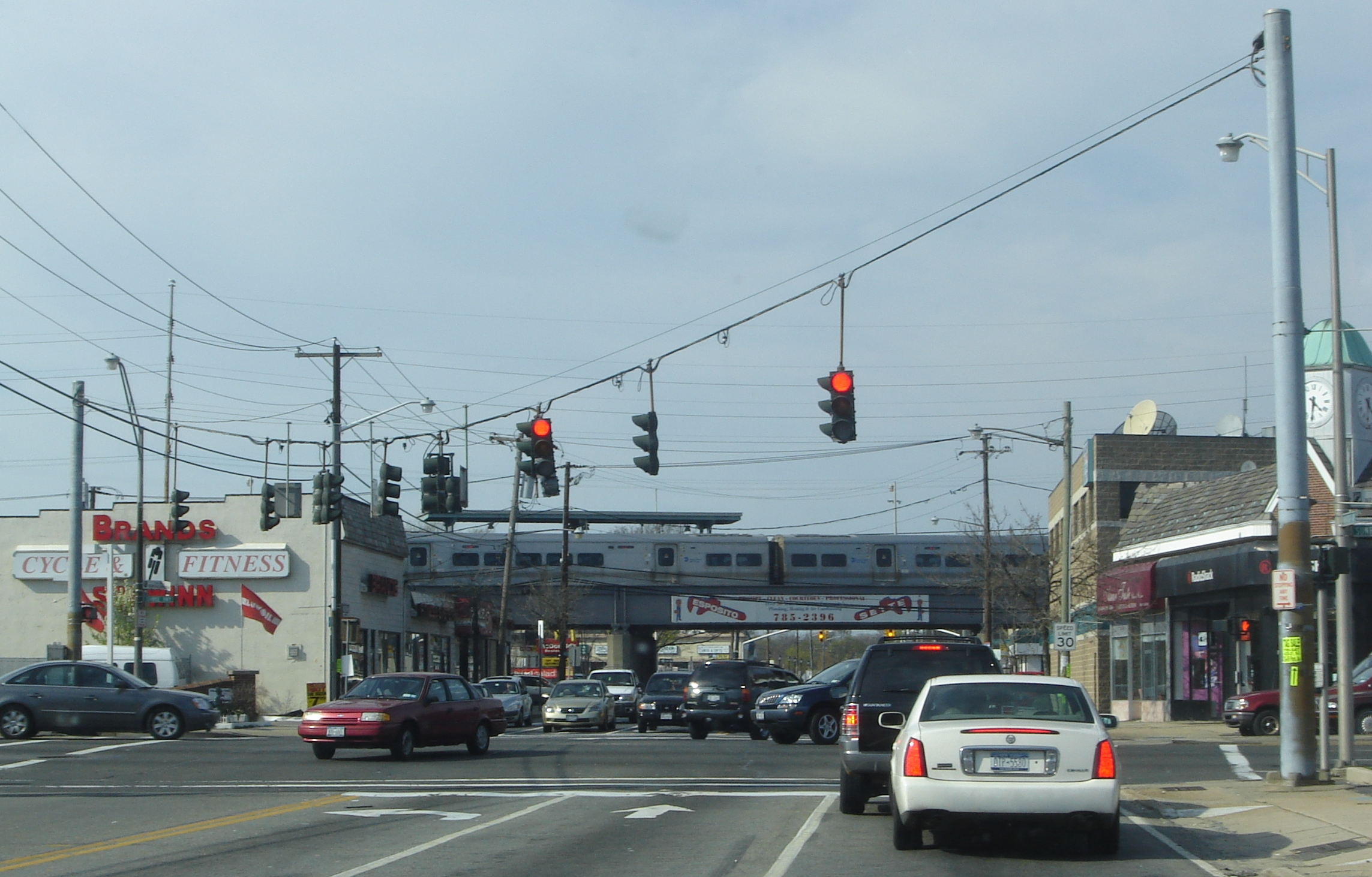 "Downtown" Wantagh, New York, intersection of Wantagh Ave and Sunrise Highway.